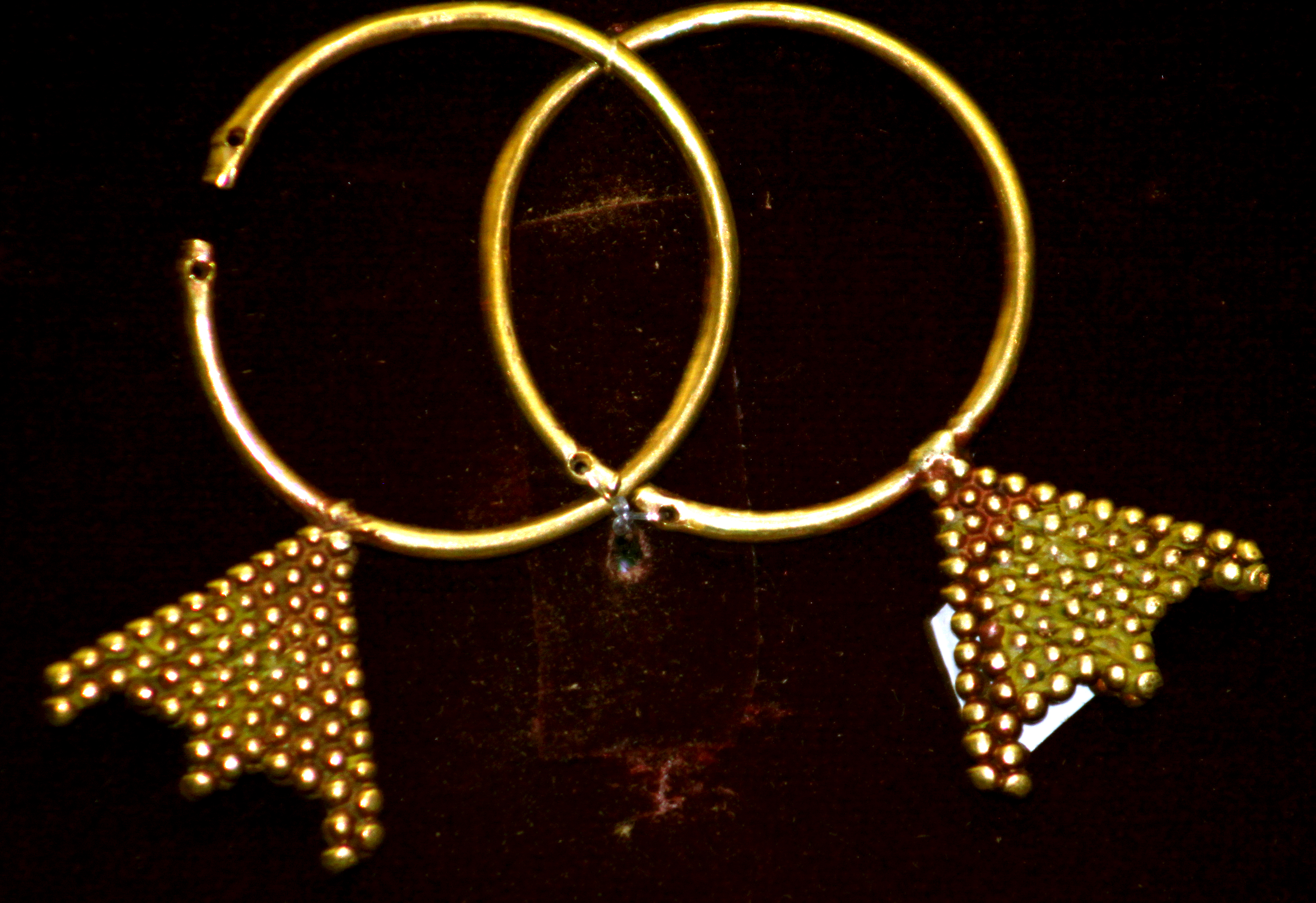 Buğda şəkilli qızıl sırğalar, Mingəçevir, Qafqaz Albaniyası, e.ə. I əsr